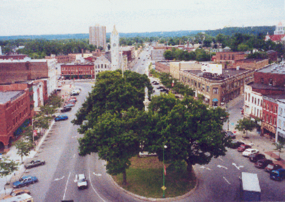 author self